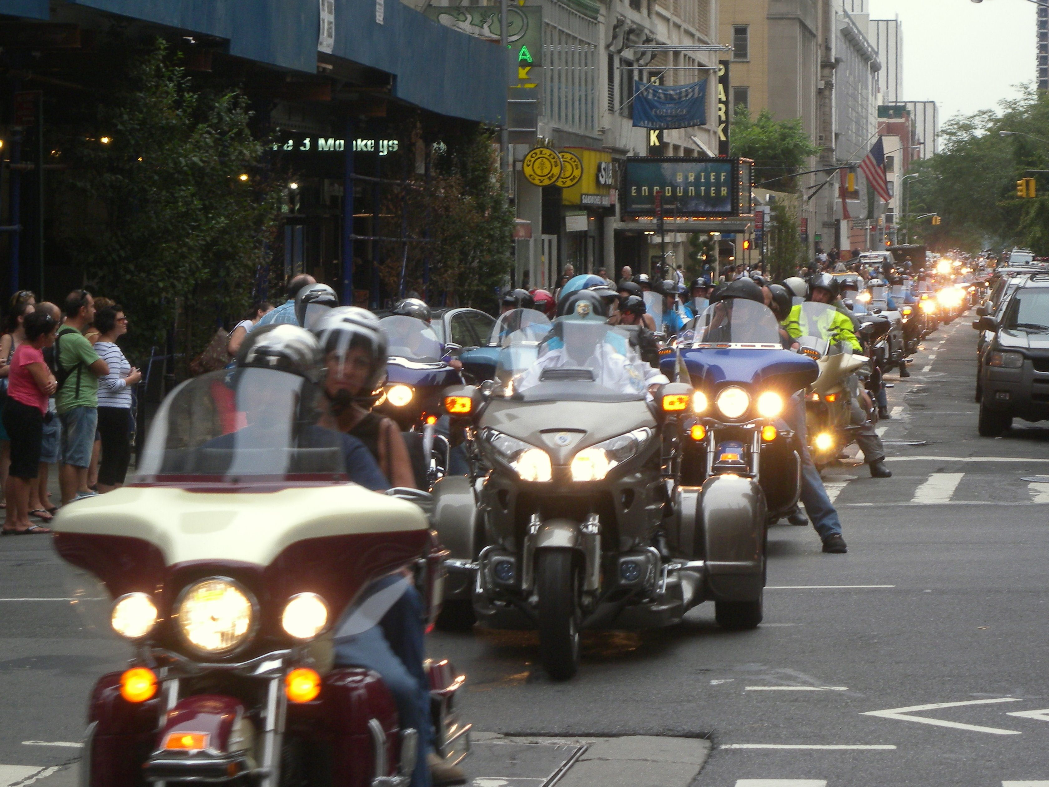 Looking west across Broadway as motorcycle parade climbs 54th Street on a cloudy evening.